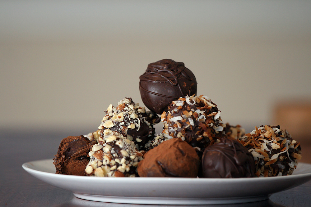 Truffles with nuts and chocolate dusting on plate.